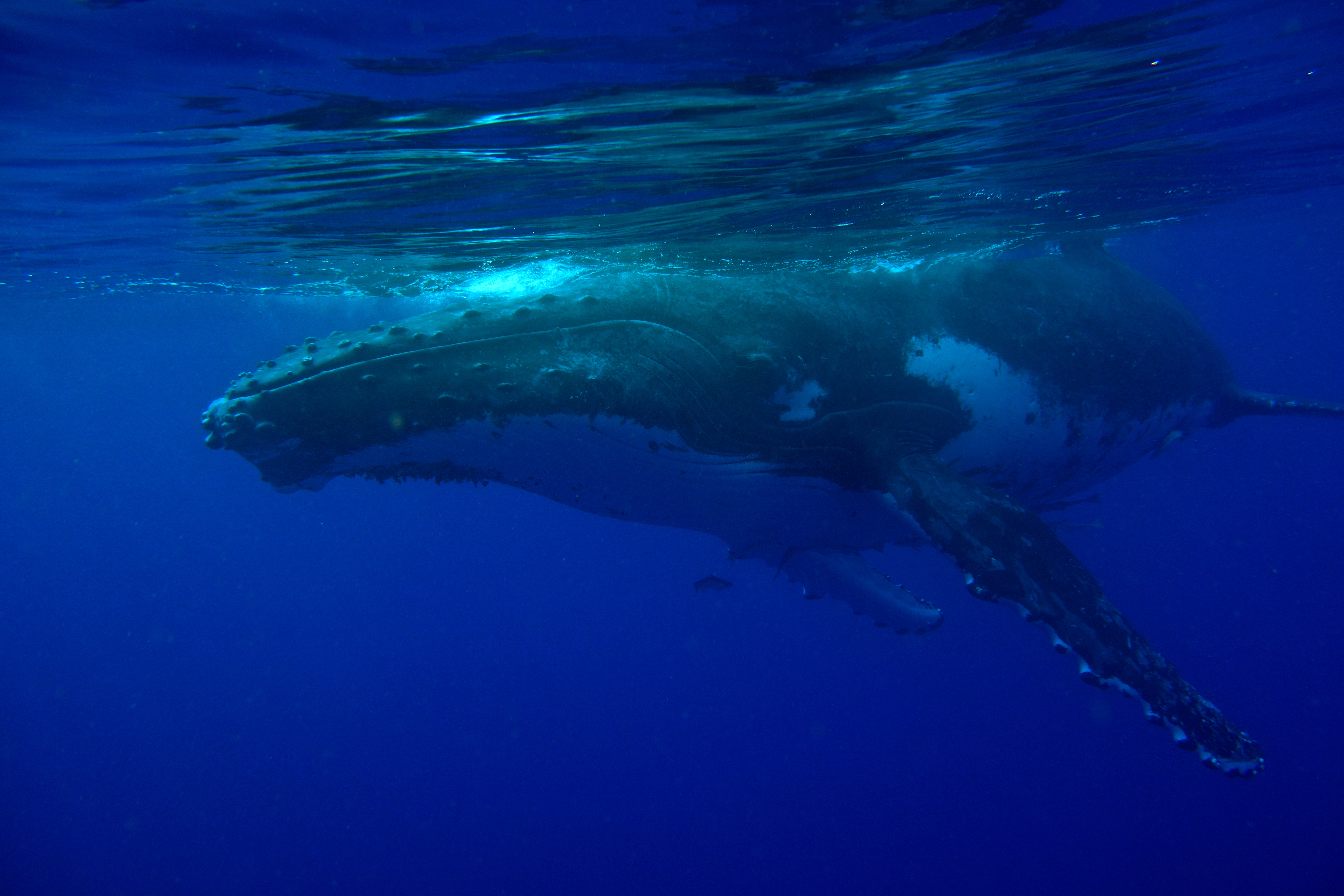 Humpback Whale-Megaptera novaeangliae